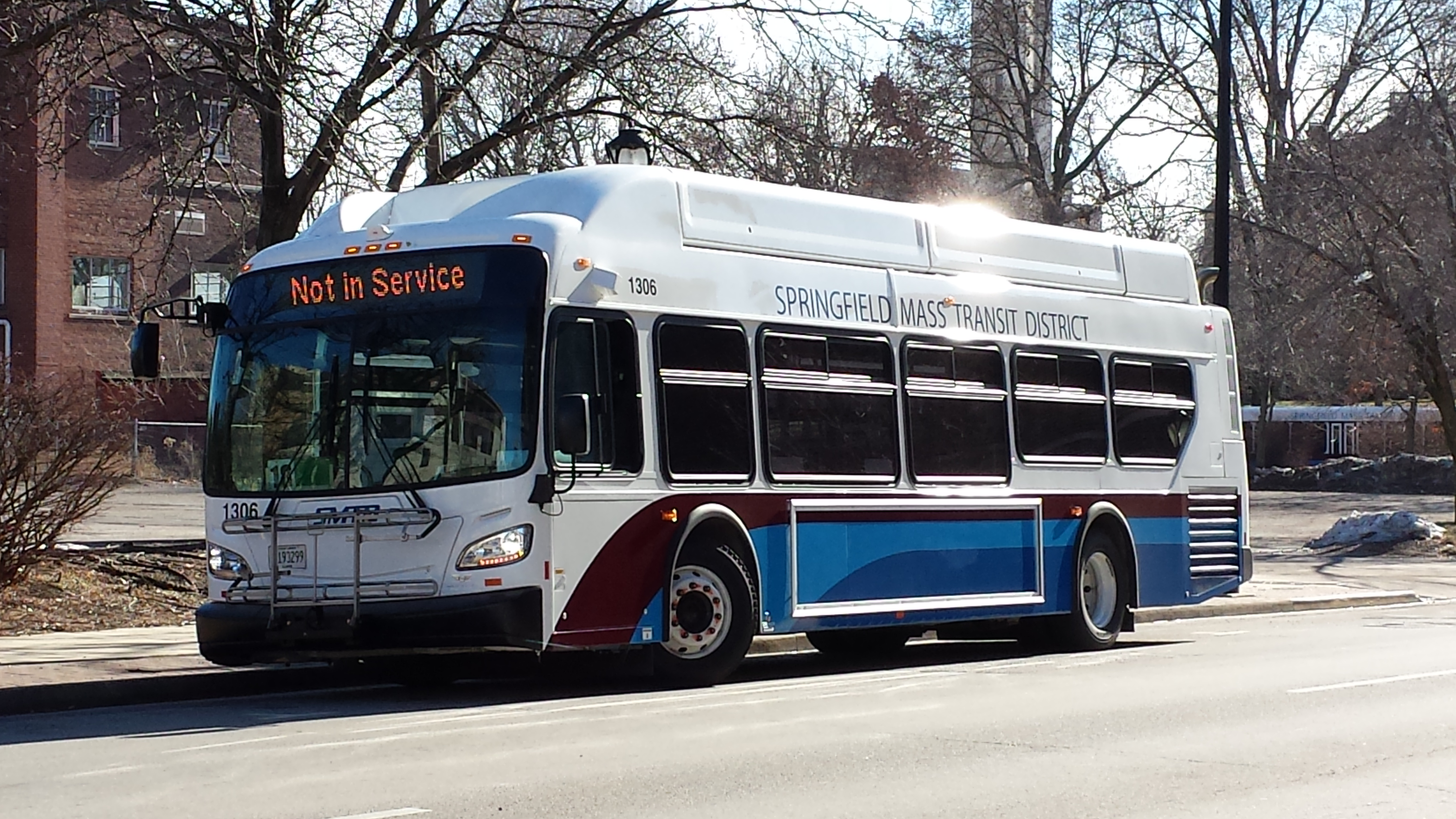 First NEW 2013 CNG New Flyer. 1 of 7 All 35ft